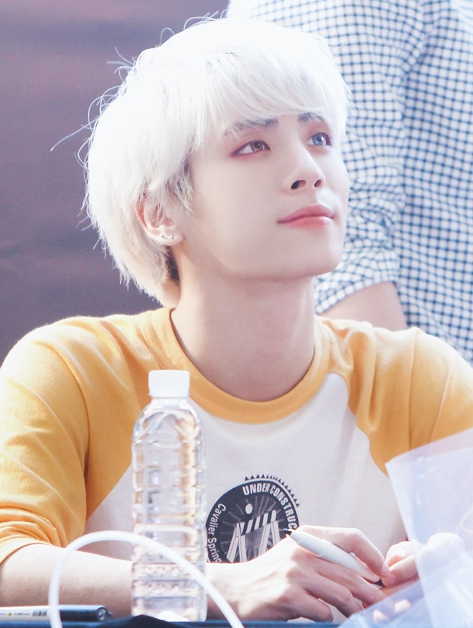 Jonghyun at a fansign at IFC Mall in Yeouido on May 29, 2015.